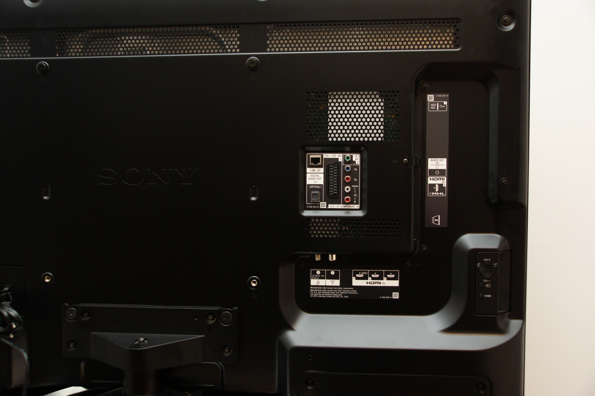 Bravia W9 Zimny